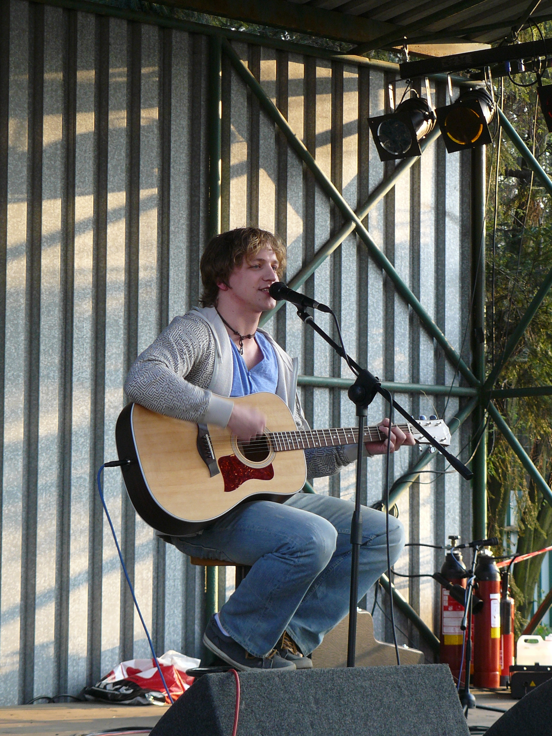 Tomas Klus, Hutník 2008, Třinec